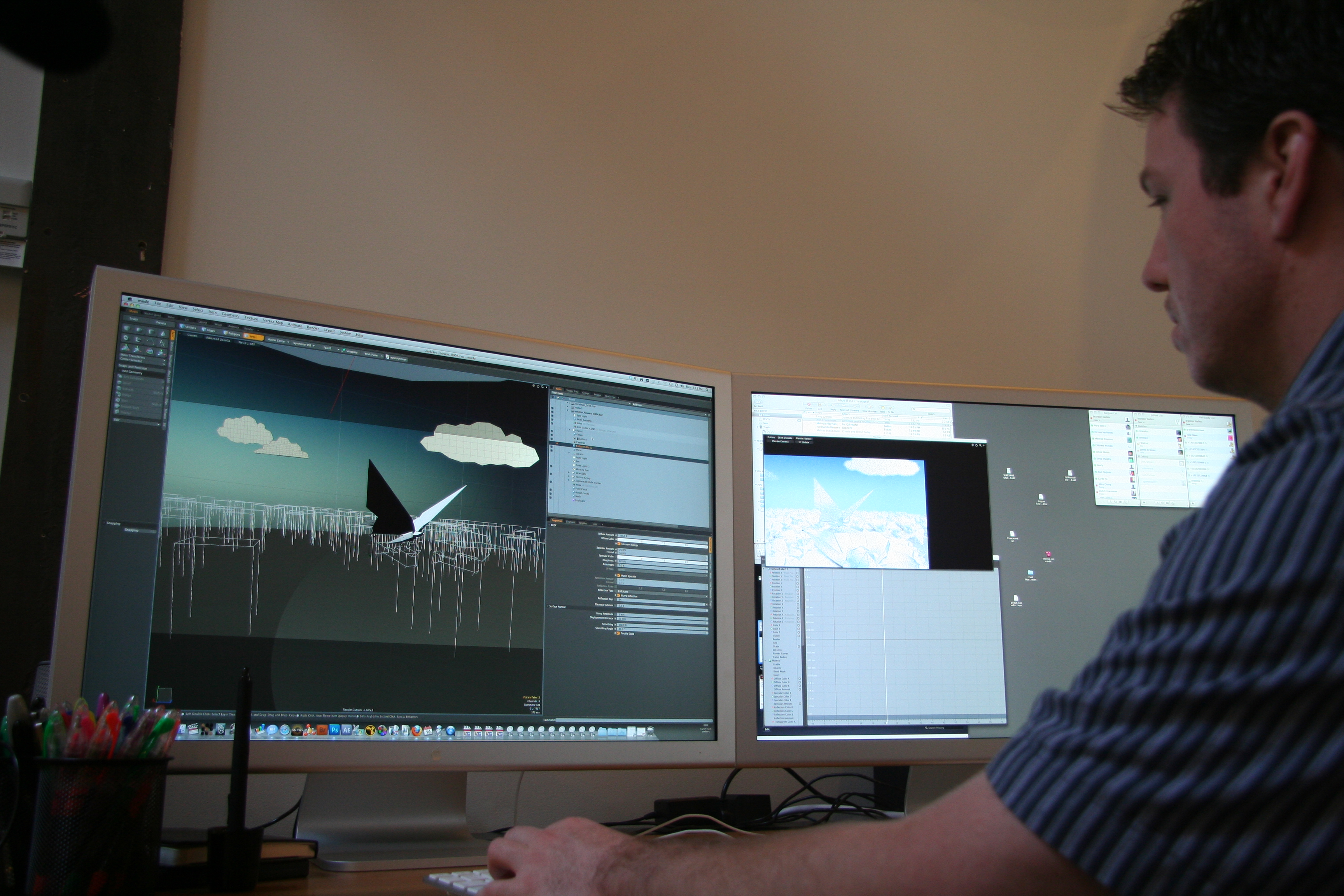 The need for compute horsepower drove John McNeil Studio co-director Brandon Kuchta to try Amazon’s EC2, or Elastic Compute Cloud. The elastic nature of Amazon’s service allowed the McNeil team to instantly dial up or down the amount processing power and storage space required for each phase of the process. After setting up a master computer with Amazon, Kutchta was able to access the processing power of hundreds of computers. They were able to simultaneously render several phases of the animation project. “With Amazon, it’s pay as you go, so we can fire up 300 machines at once,” said Kuchta. “If we needed them just for a few hours, that’s all we would pay for and then we spin them down until we needed them again.” Intel Free Press story: Cloud Computing Democratizes Digital Animation. Pay-as-you-go datacenter processing power creates opportunity for smaller business.